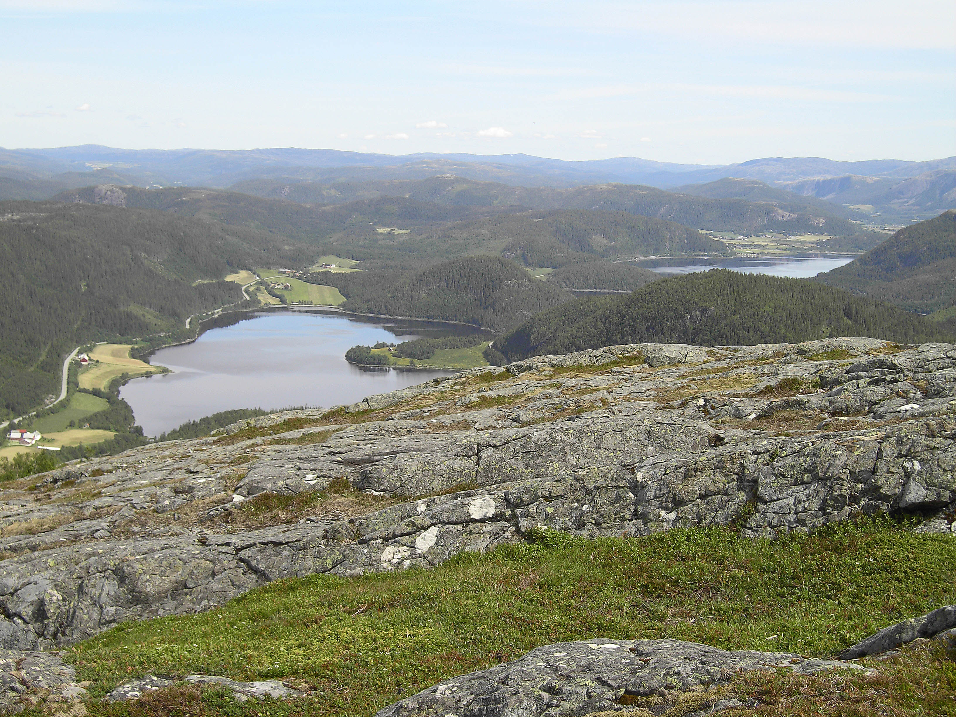 The Stordalen valley and the lake Stordalsvatnet in Åfjord as seen from Mælanakken